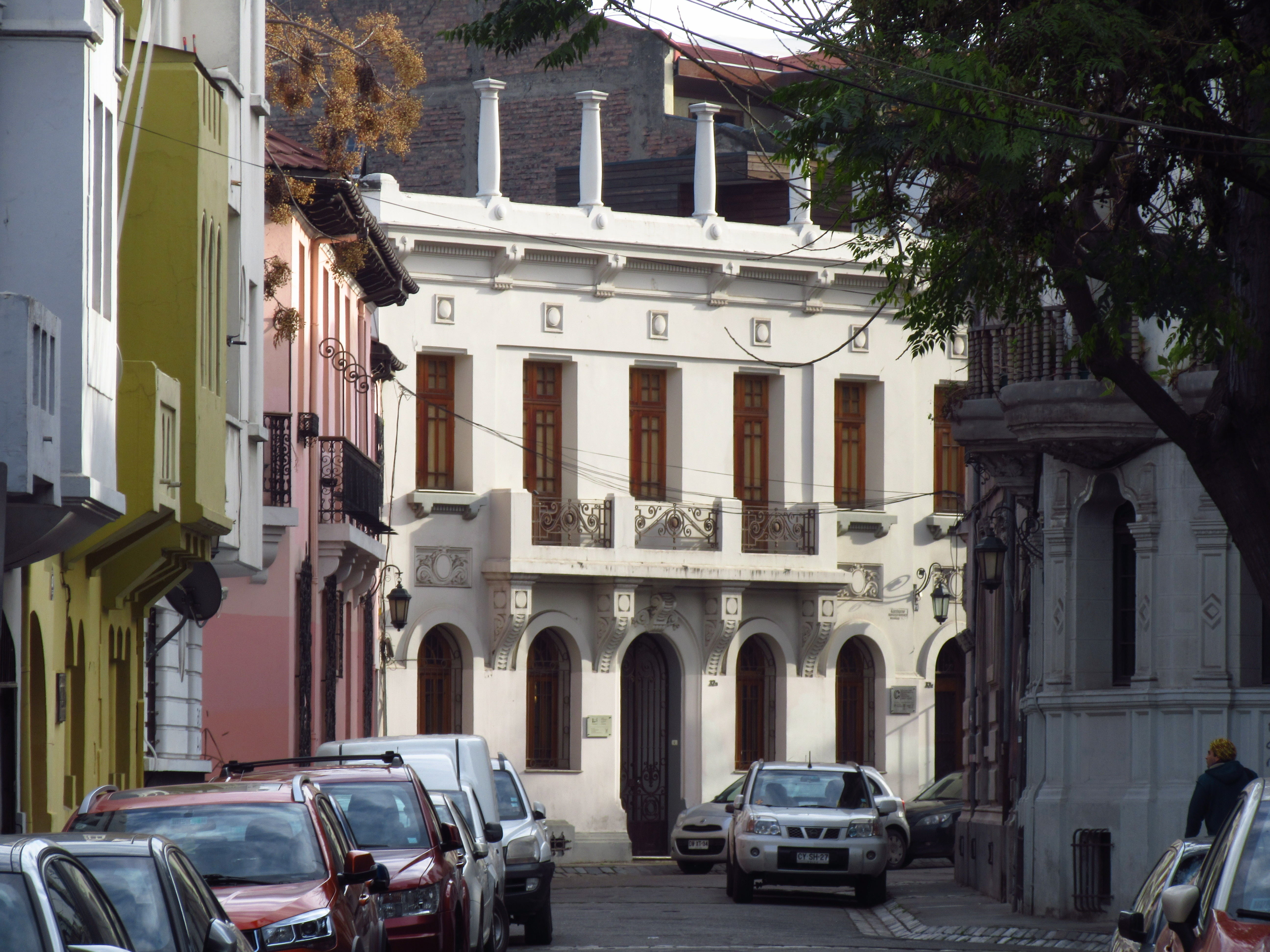 2017 in Santiago de Chile